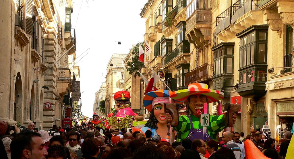 Valletta is the capital of Malta. Valletta is a traditional center of the Carnival You can use this images for free. But a link to the - I would be happy :)